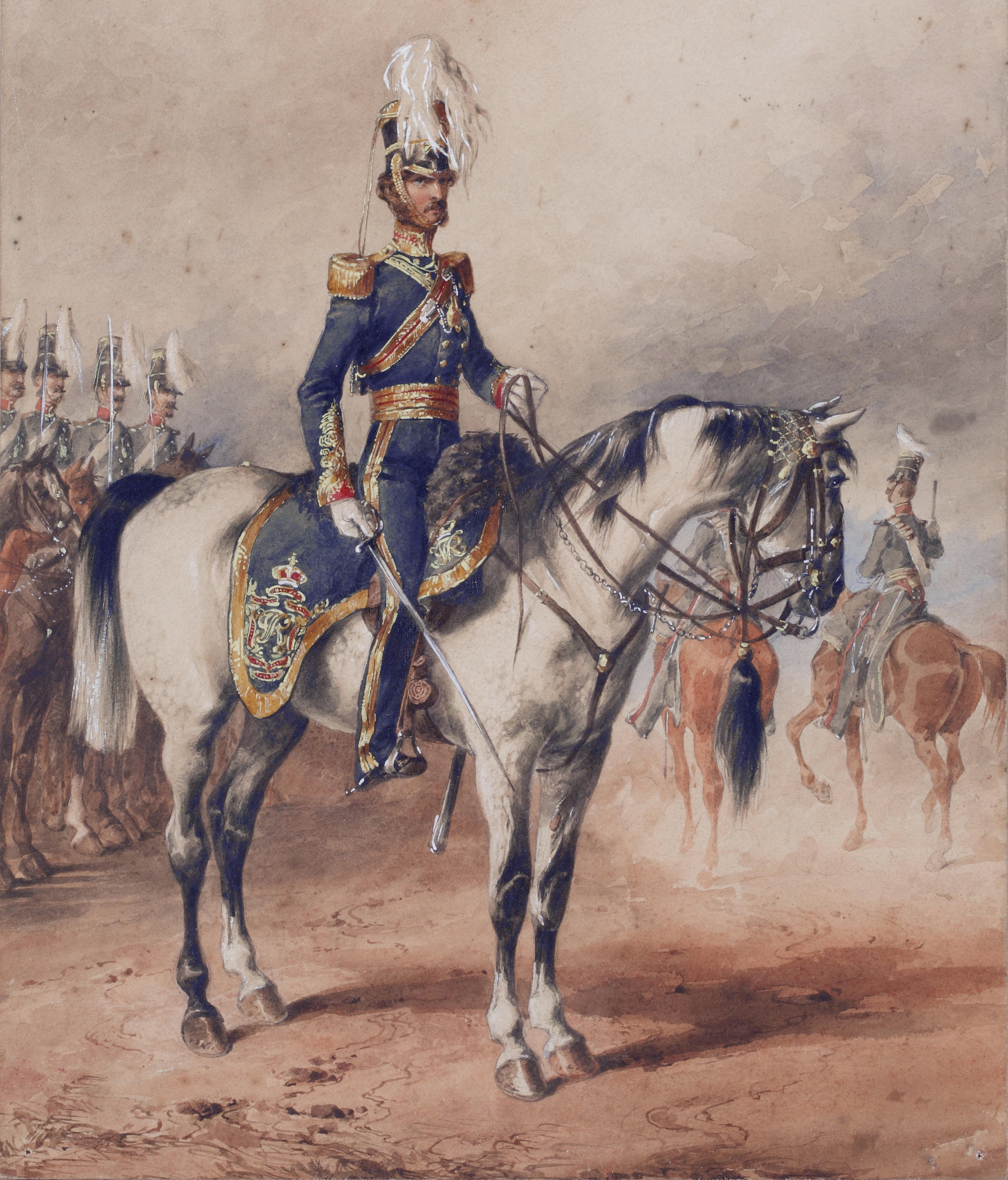 Lieutenant-Colonel Lord George Augustus Frederick Paget 4th (Queen's Own) Light Dragoons, Dublin 1850 watercolour 33.5 x 25.5cm 1850